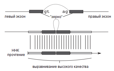 Seed and extend strategy.